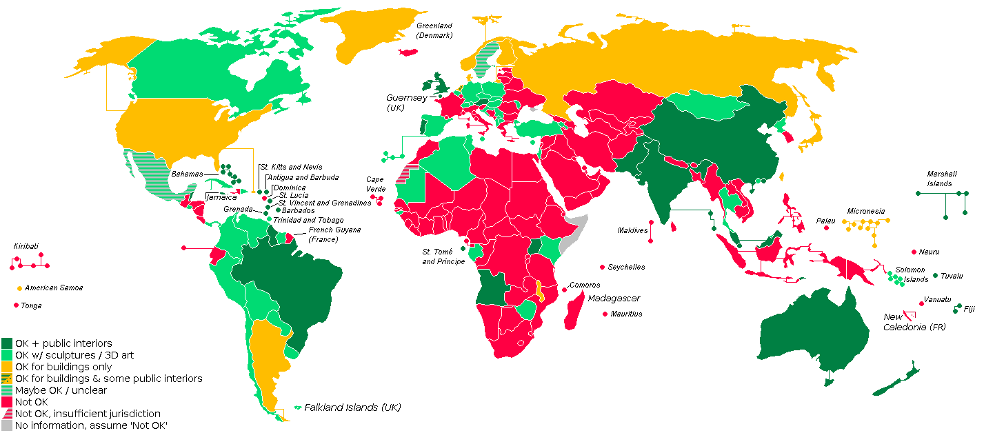 Freedom of Panorama (FOP) world map. OK, including public interiors OK, with permanently placed sculptures / 3D art OK for buildings only ䷀䷀䷀ OK for buildings and some public interiours ䷀䷀䷀ Maybe OK / unclear Not OK ䷀䷀䷀ Not OK, insufficient jurisdiction No information, assume 'Not OK' Non-commercial use of photos of buildings is not specified in this image. The map is incomplete due to lack of information on several countries' copyright legislation. The map is based on data of countries and territories recognized de jure and/or de facto by the UN and most member states. Notes on countries American Samoa — U.S. copyright law is assumed to also extend there. Falkland Islands: UK copyright law strongly assumed to extend there. No information on whether interiours are also allowed. Greenland: Denmark's copyright law most likely extends to Greenland, given that it's a semi-independent dependency (needs to be checked); Guernsey added as a dot — its copyright law does not cover interiors; Added Kosovo (roughly, based on File:World map model.png) — its copyright law is different from Serbia. Added Zanzibar islands, but not as points, because they are part of Tanzania. Although Zanzibar has a different copyright law that is more explicit about lack of FOP, then Tanzania allows FOP for audio and video only. All in all, Tanzania is not OK. Mexican copyright law is vague. Bhutan not listed at COM:FOP. No FOP anyway. Haiti and many other countries' information is unknown, given that COM:FOP does not list them; there is little or no relevant FOP Talk, and no casefiles. Marshall Islands have no copyright law. Yay :-) Sweden is red due to a court case in 2017 that limited the FOP scope in the country. Other notes If interiors were not separately specified at COM:FOP, then they weren't included. Fonts used in text added with GIMP: 'DejaVu Sans Oblique, 12' for territory names; 'DejaVu Sans 16' for legend.